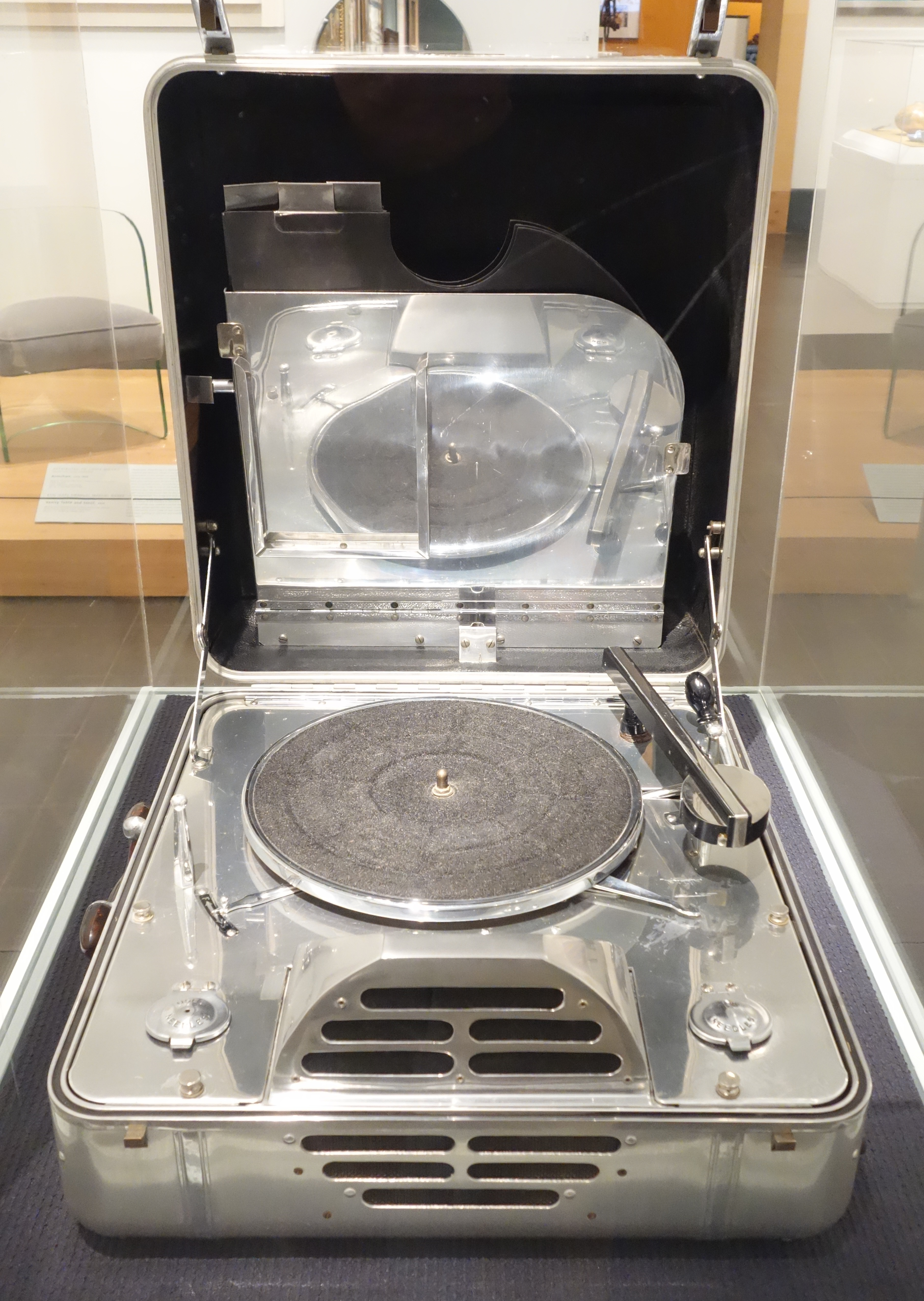 Exhibit in the Brooklyn Museum - Brooklyn, New York, USA. This artwork is in the public domain because the artist died more than 70 years ago.